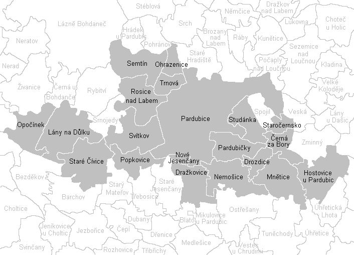 Cadastral map of Pardubice